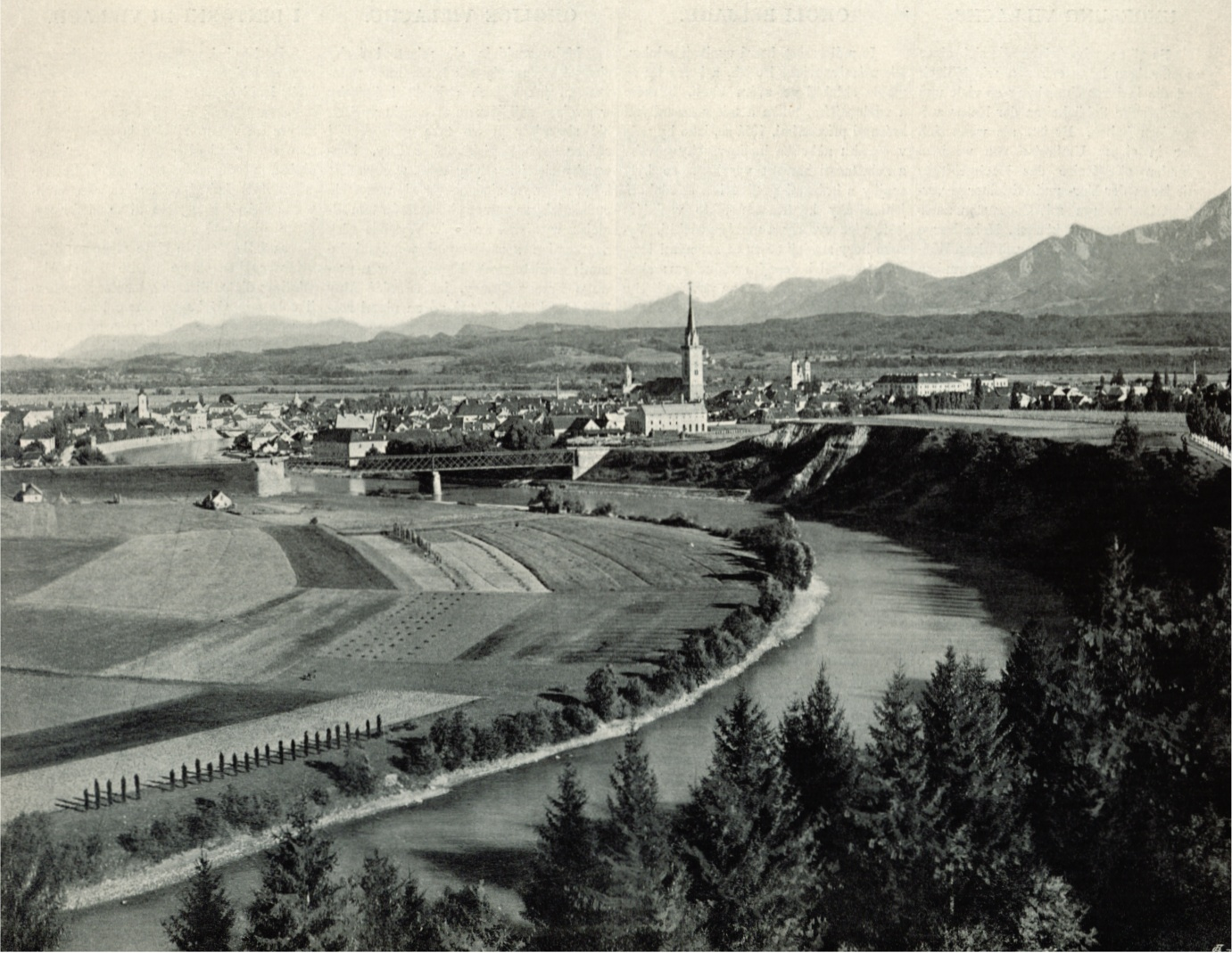 The Austrian city of Villach